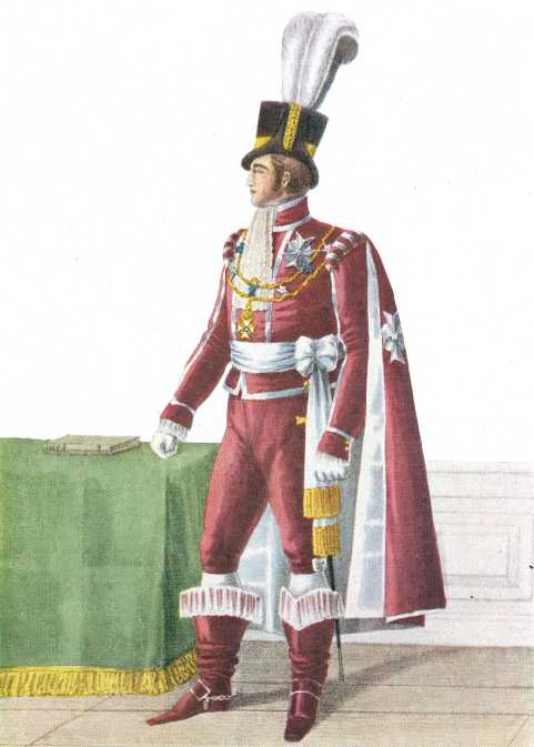 Robes of the Order of the Polar Star